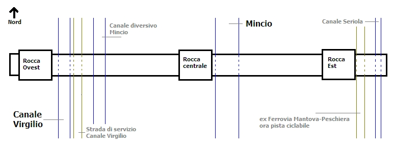 Pianta2_Ponte_Visconteo_Valeggio_Sul_Mincio_Verona